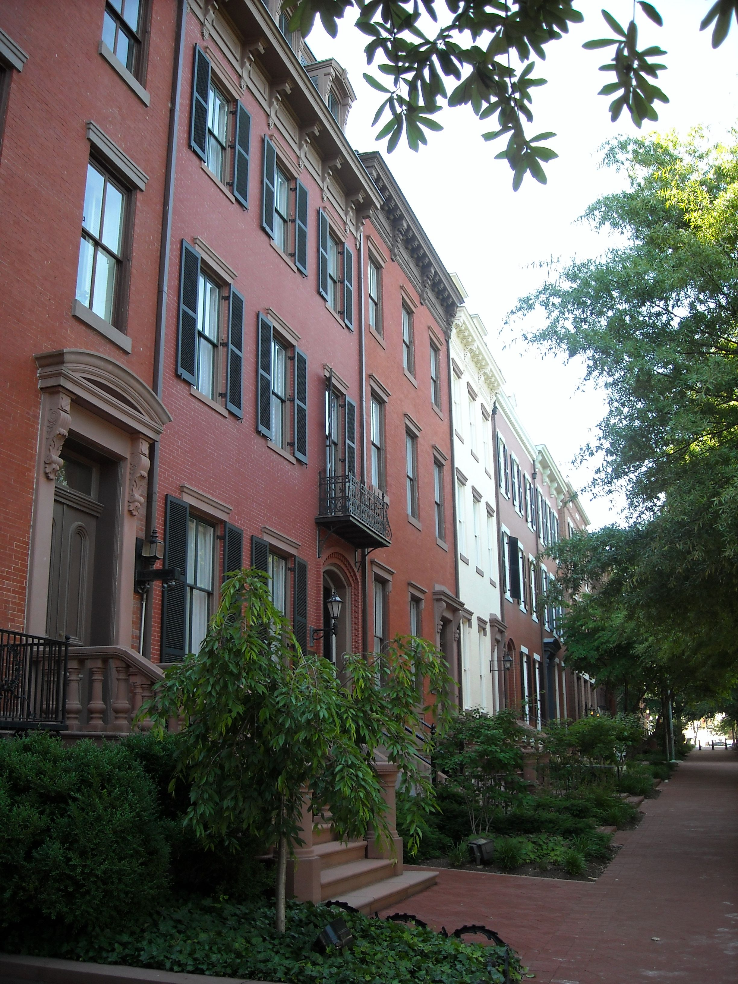 Looking down Jackson Place in Washington, D.C. The street is in front of the White House and contains several historical buildings and National Landmarks.